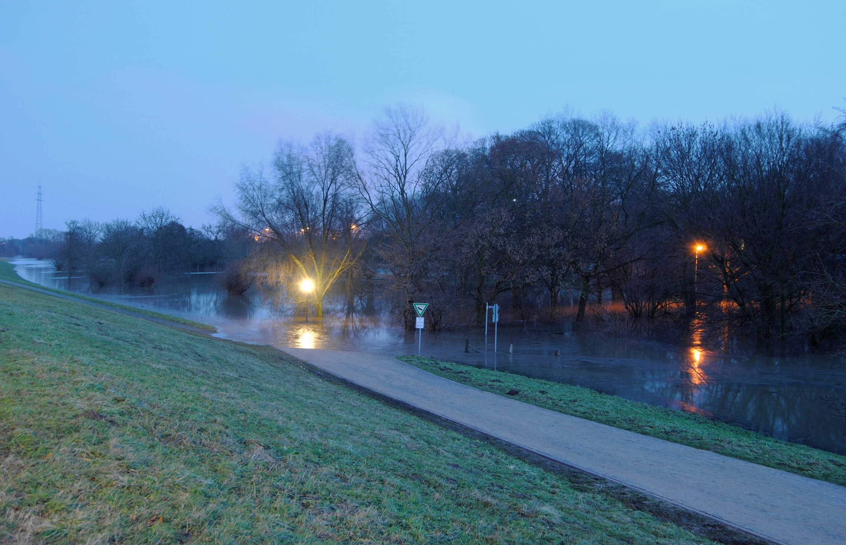 Duisburg (North Rhine-Westphalia, Germany) – borough Rheinhausen, district Friemersheim – flood protection area during the Rhine flood in January 2011 in the evening (blue hour) This photograph was taken with a Nikon D3000.